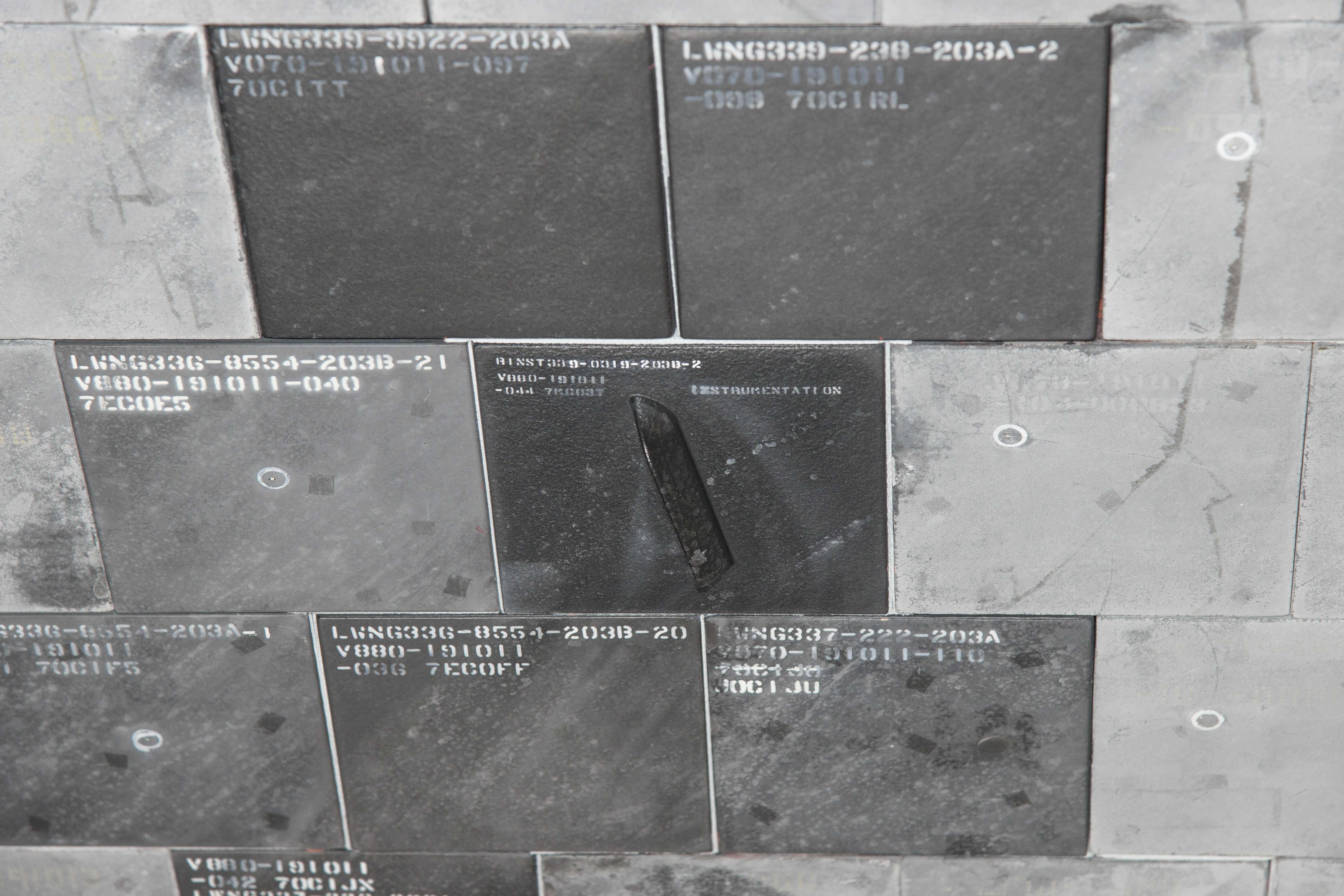 View of a wedge installed under Space Shuttle Discovery's (OV-103) (A20120325000) port wing for a boundary layer transition experiment on its final mission, June 24, 2013. Small black squares where sensors were attached for data collection are visible on nearby tiles.